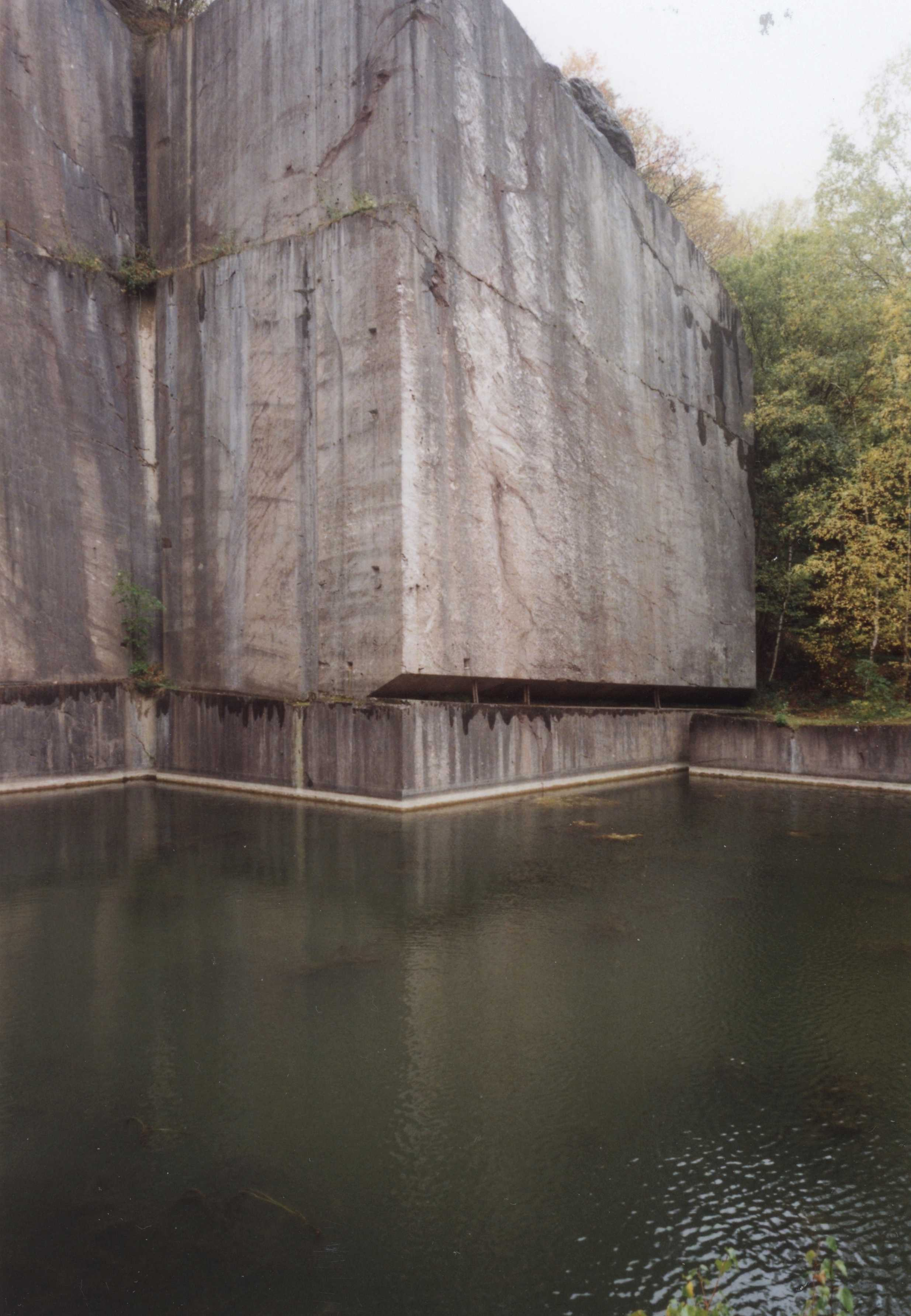 limestone quarry of Belgium (Wallonia)